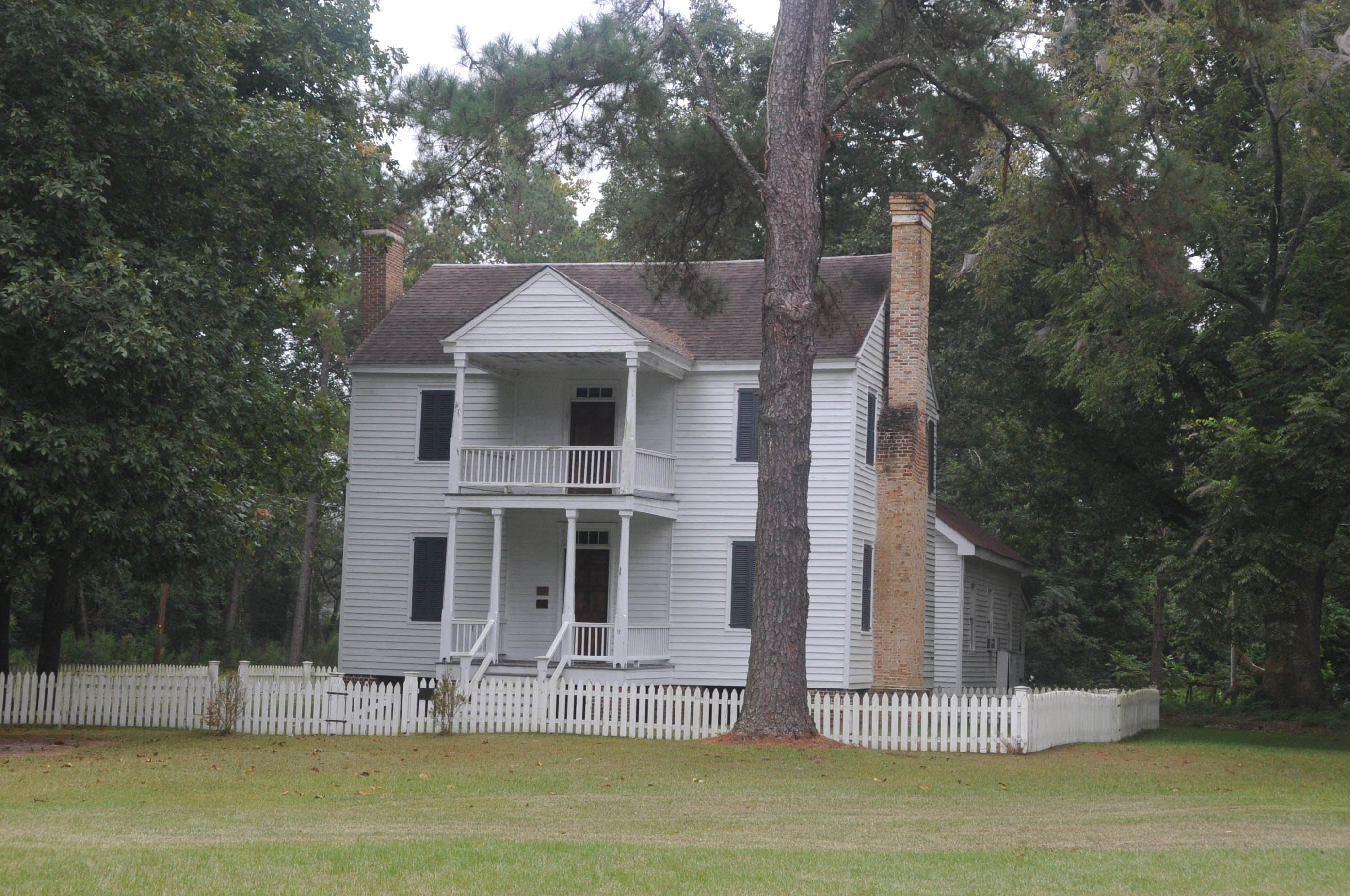 Built circa 1795 by the John Gilchrist, Sr. who had fled Scotland following the defeat of Bonnie Prince Charlie in 1745-1746